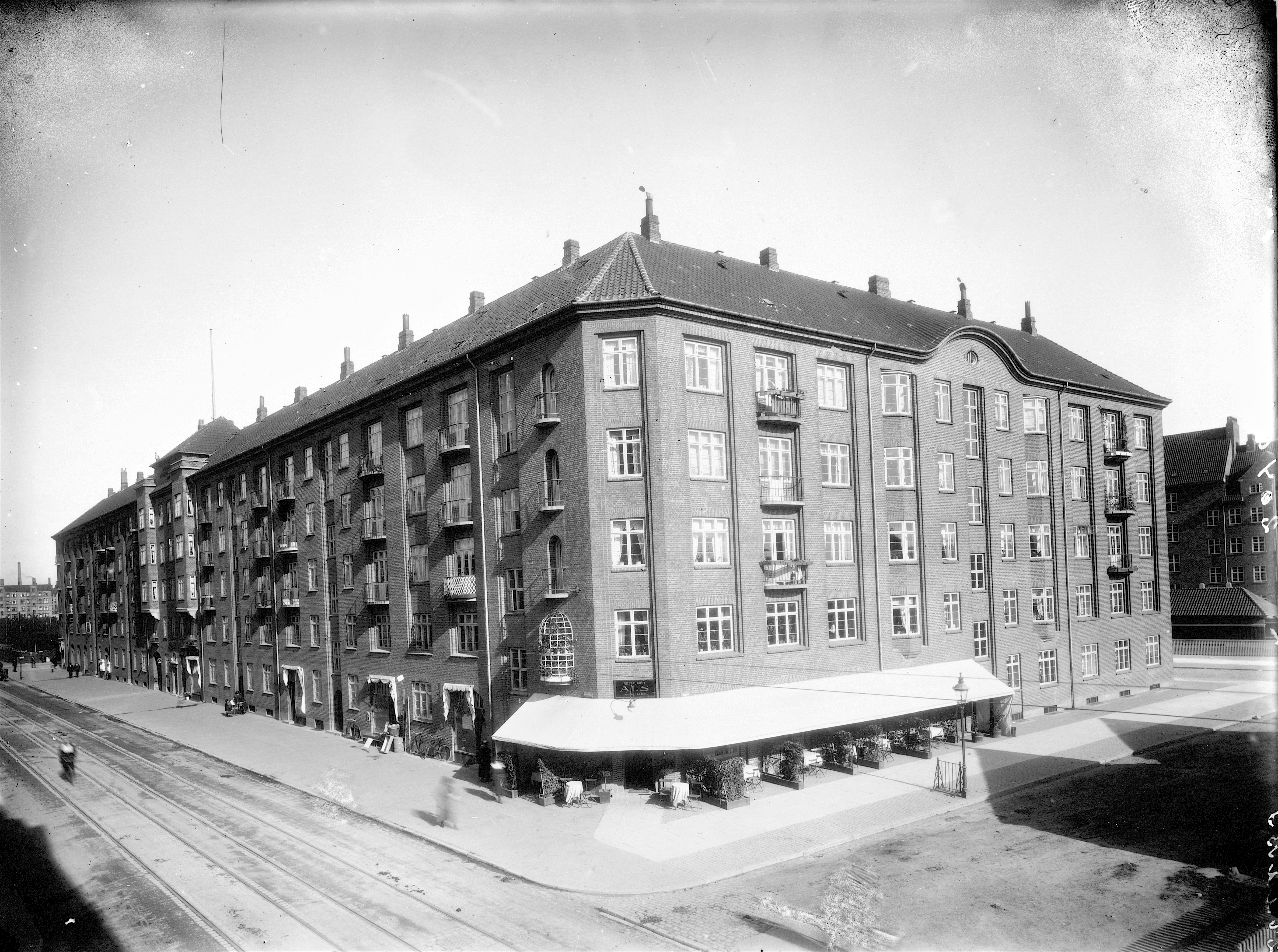 The block Vesterfælledvej 61-73, Alsgade 24, Ejderstedgade 18-32, Ny Carlsberg Vej 37, Vesterbro, Copenhagen, Denmark, built in 1917 to a design by architect Christian Mandrup-Poulsen. Restaurant Als is at the corner at Vesterfælledvej 73.